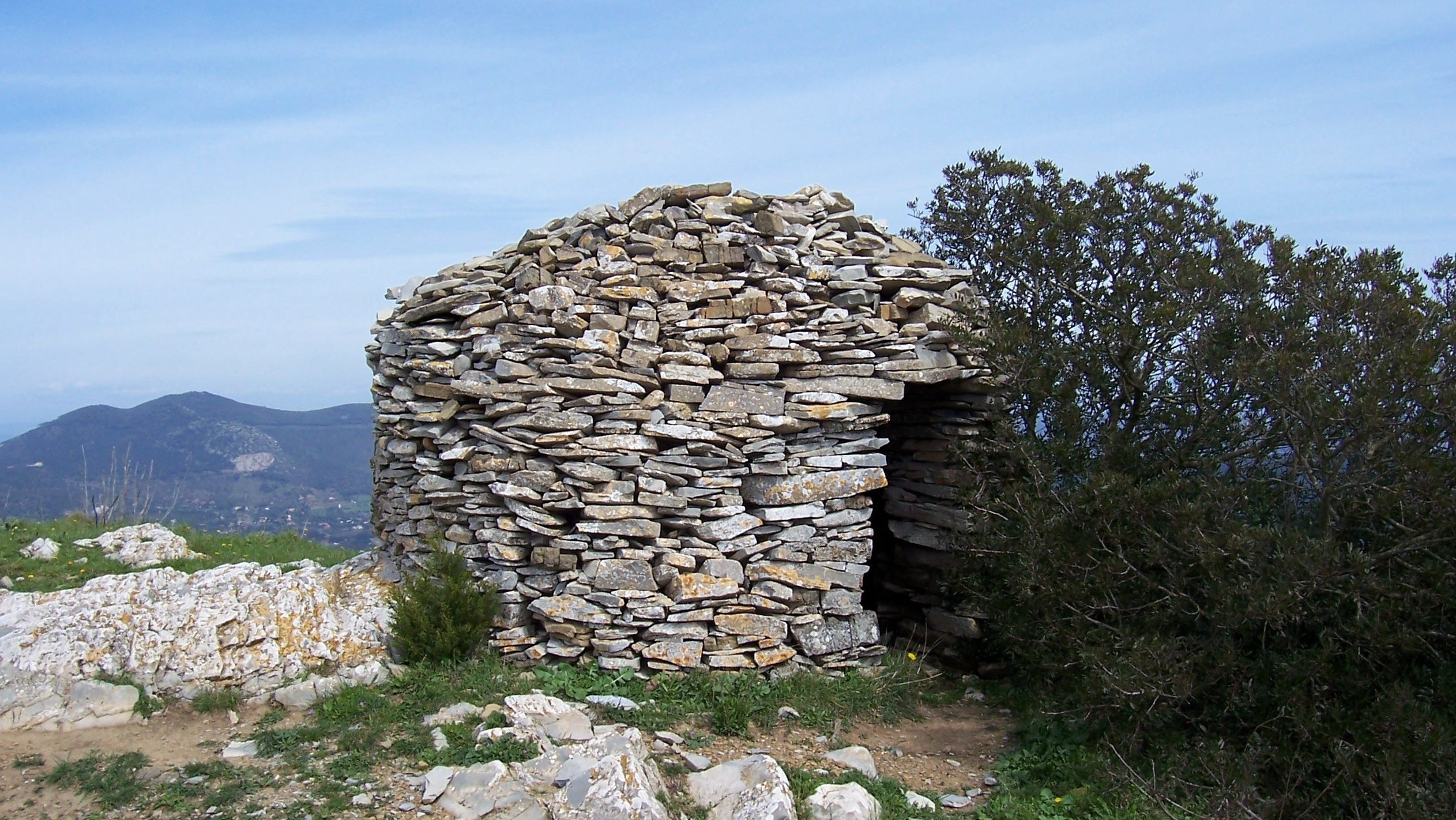 Elba island